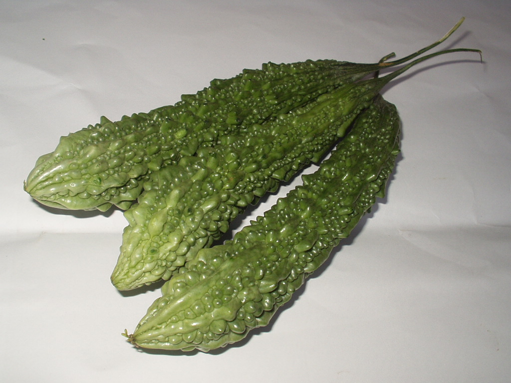 Balsam pear, alligator pear, bitter gourd, bitter melon, bitter cucumber চৈ: fu kwa বৈজ্ঞানিক নাম: Momordica charantia